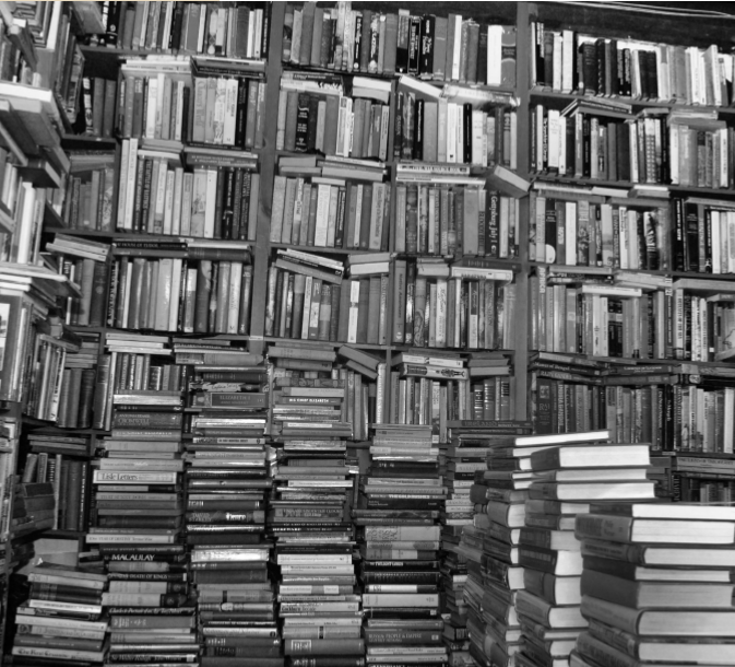 I am the author and source of the image. AWR first book store. To be used in AWR page